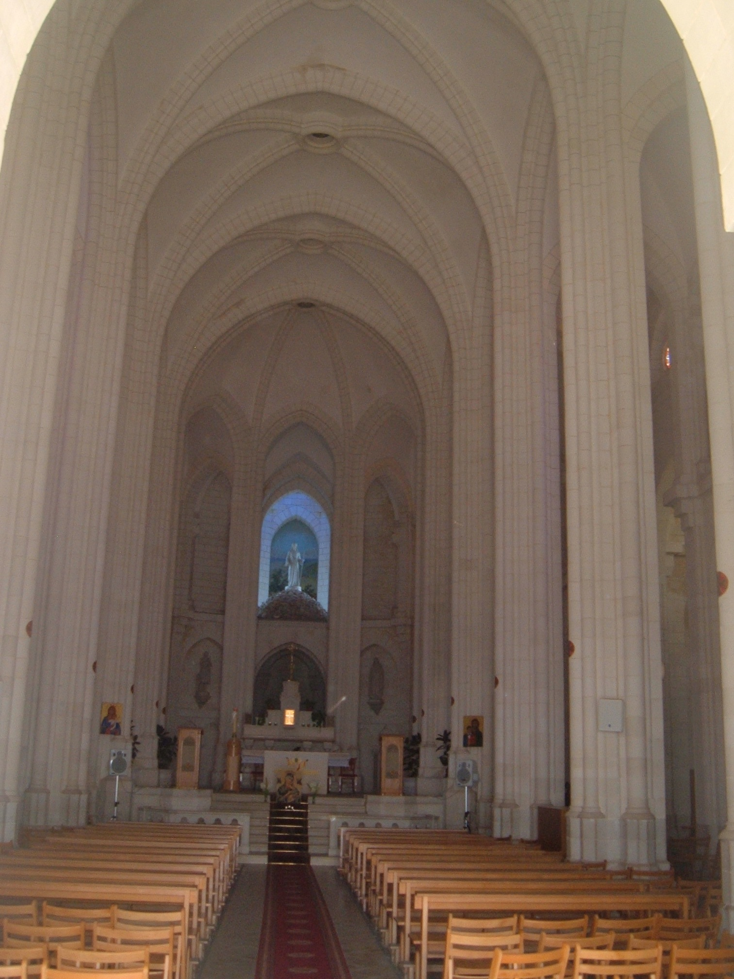 Inside the Salesian Church Nazareth פנים הכנסייה הסלזיאנית בנצרת